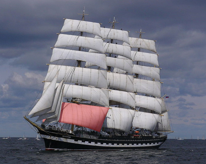 Foresail.